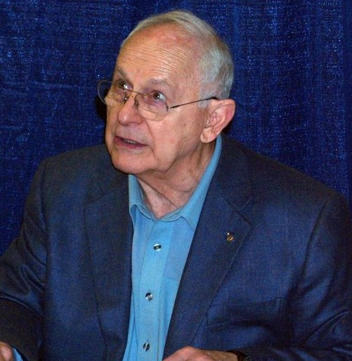 I personally took this photo of NASA astronaut Al Bean in San Diego.